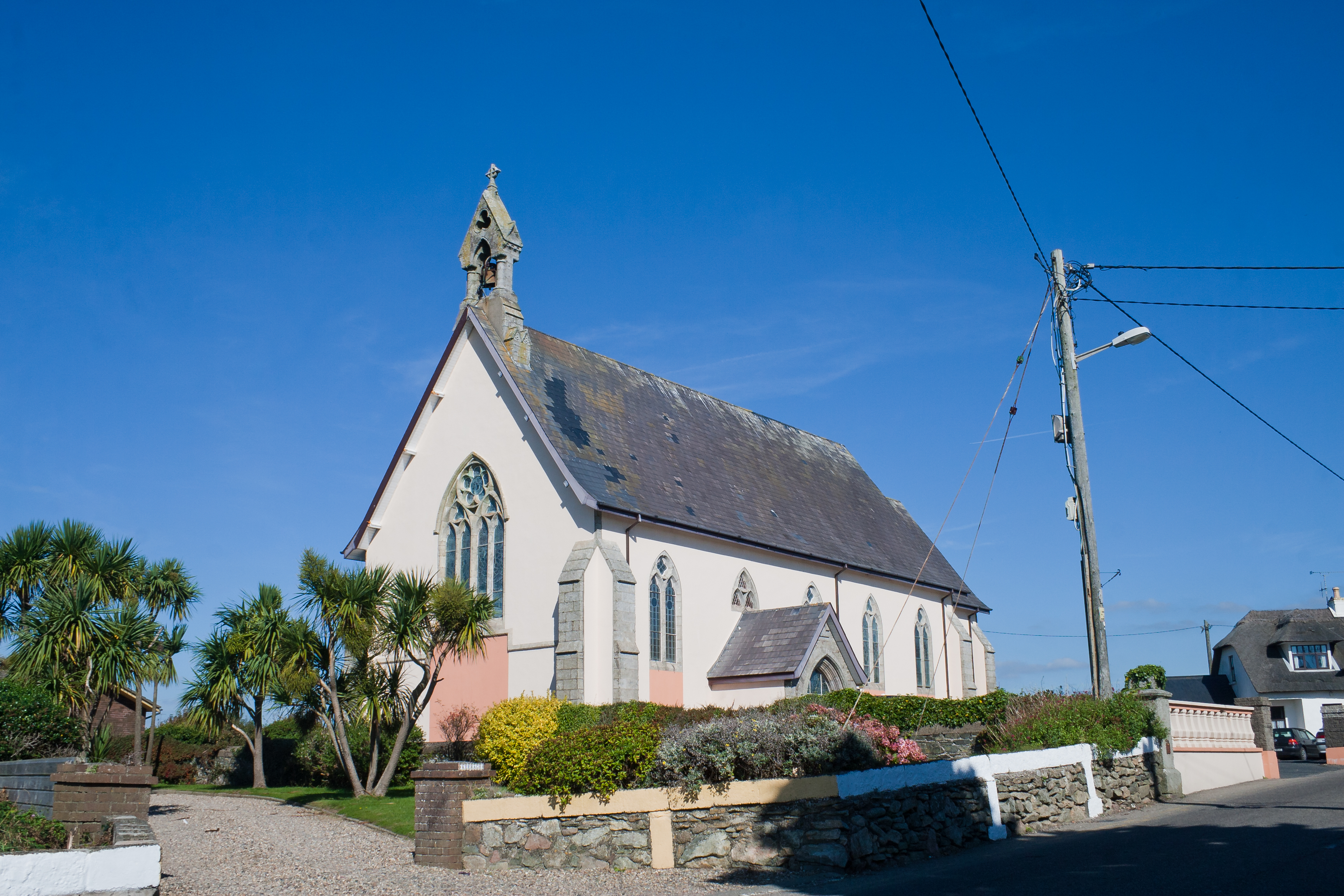 St. Peter's Church as seen from the road.